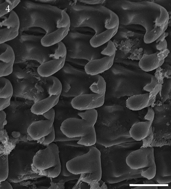 Photo of the radula Leptacme cuongi. central tooth, with adjoining lateral teeth 1-3. Locality: Vietnam, Thanh Hoa Province, Pu Luong National Park, limestone hill near the native village Am, 20°27.39'N 105°13.65'E; 21.ix.2003. Scale bar 10 µm.